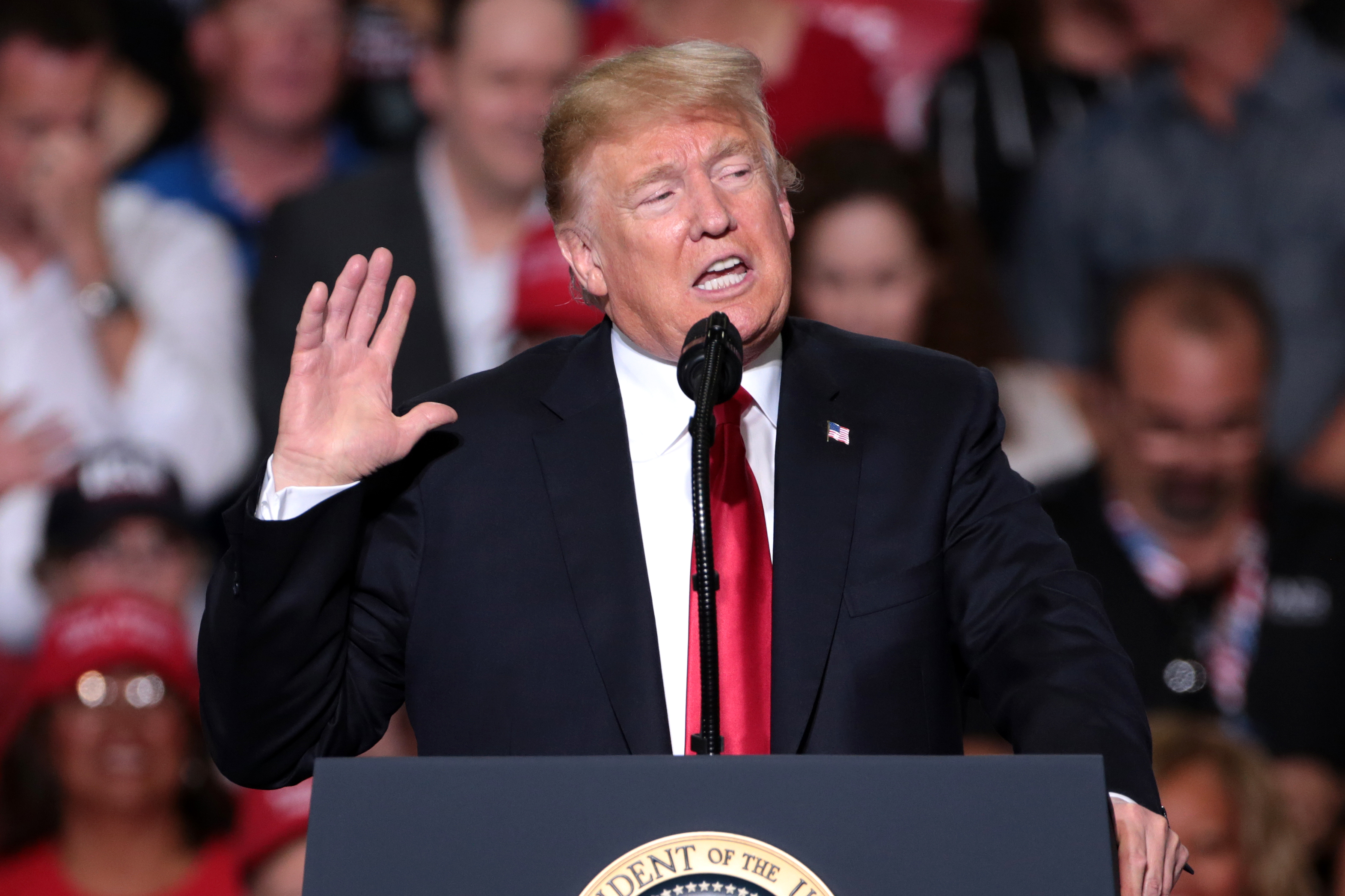 President of the United States Donald Trump speaking with supporters at a Make America Great Again campaign rally at International Air Response Hangar at Phoenix-Mesa Gateway Airport in Mesa, Arizona.